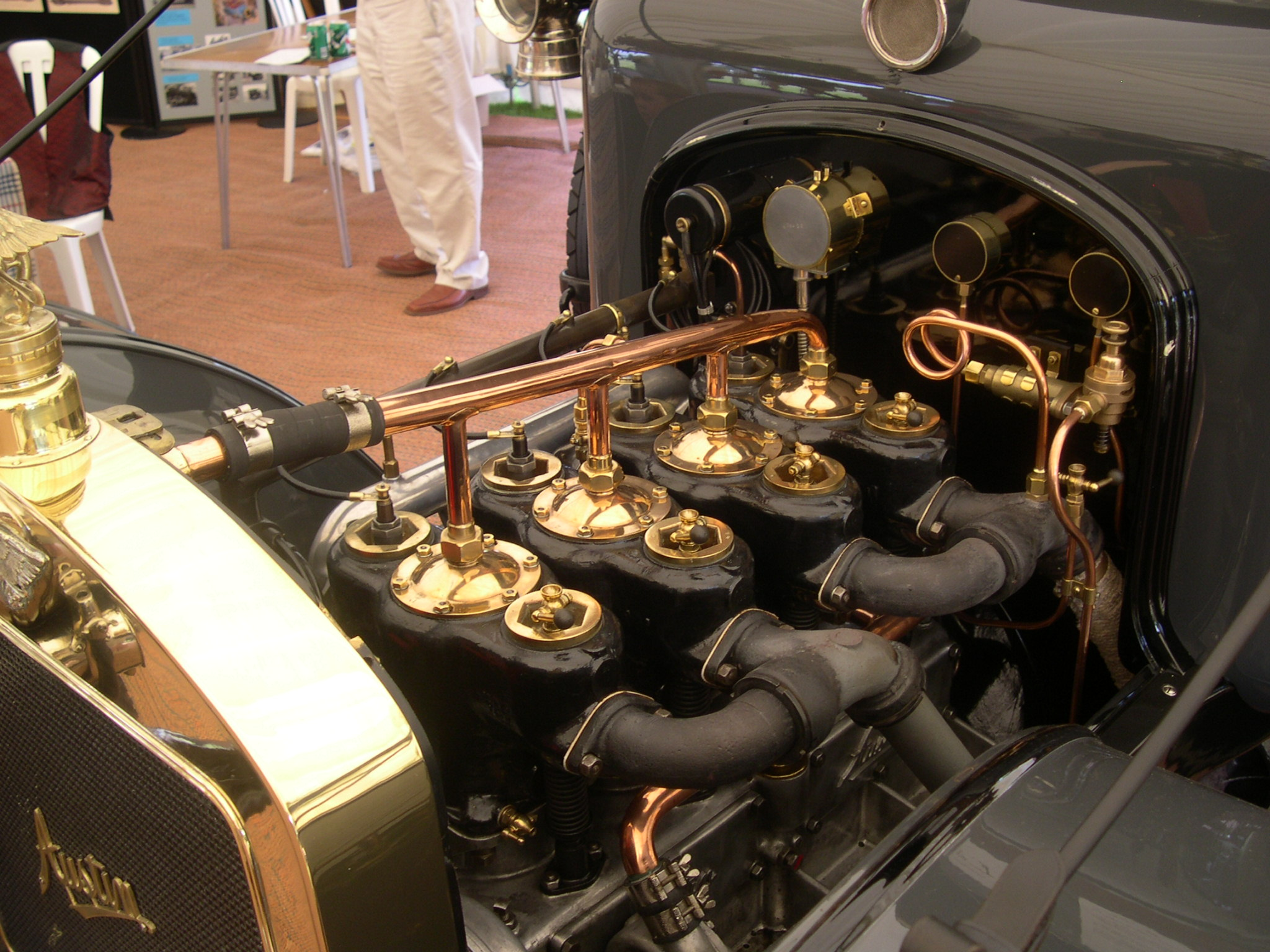 1910 Austin 18-24 Speedily Phaeton SB 115 at the Austin Centenary Year 1910 Reg SB 115 Car 765 Chassis 765 Engine 813/10/237 Info from The Edwardian Austin, Ian Dimmer